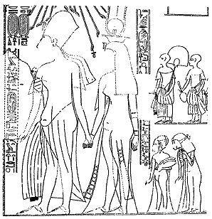 Akhenaten and his mother Tiye. Princess Beketaten in the lower left side.